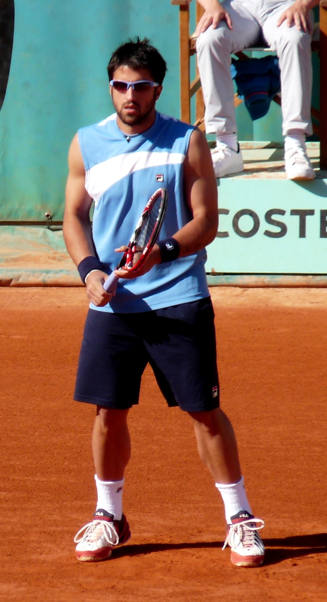 Janko Tipsarević against Andy Murray in the 2009 French Open third round